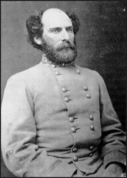 Robert Ransom Jr., Major General in the Confederate States Army.